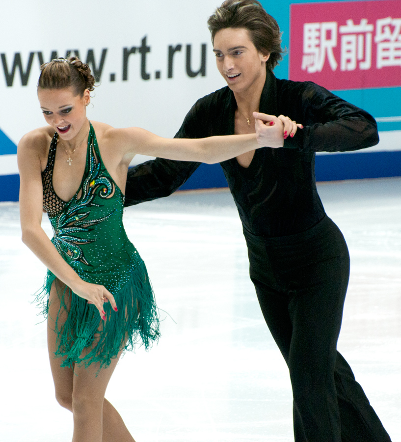 2011 Cup of Russia, short program.